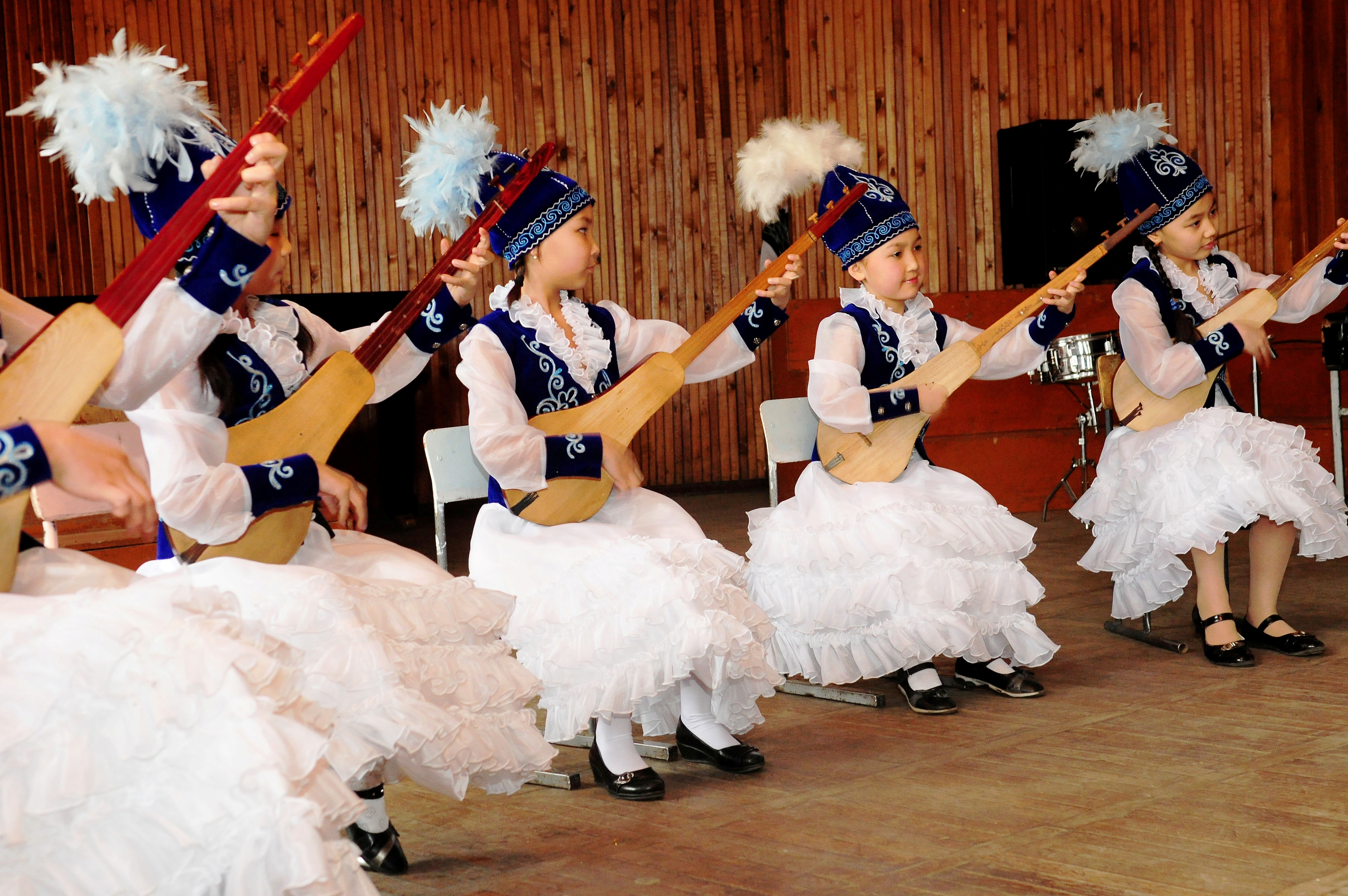 Kyrgyz students plays the Komuz, a local traditional instrument, at the Abdraev Musical Boarding School in Bishkek, Kyrgyzstan, Jan. 27, 2010.